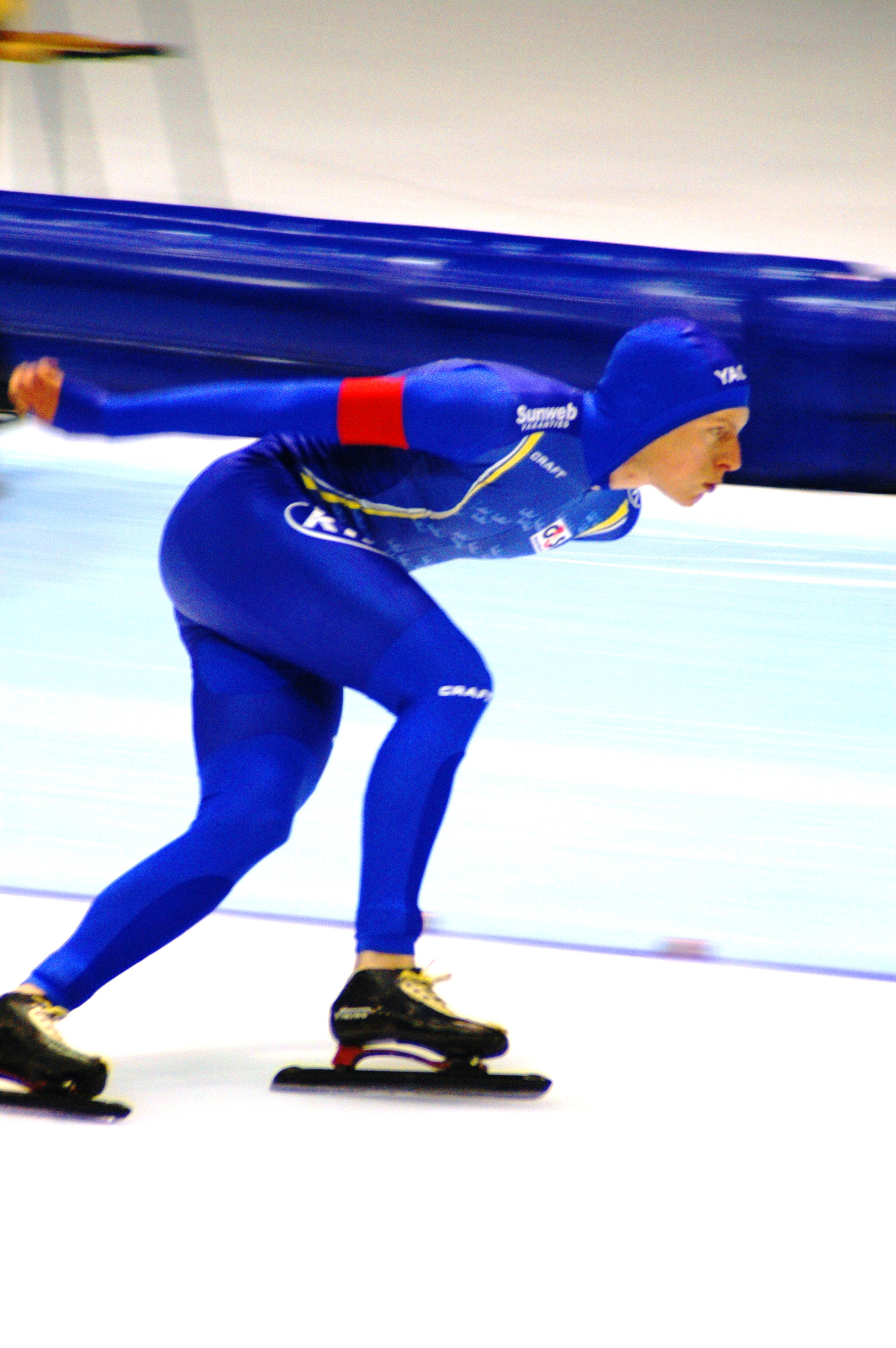 Johan Röjler (SWE) at the WCH Allround 2007 in Heerenveen (The Netherlands)